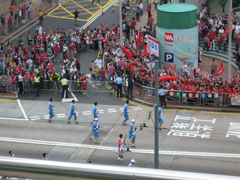 The Olympic Torch relay in Hong Kong.